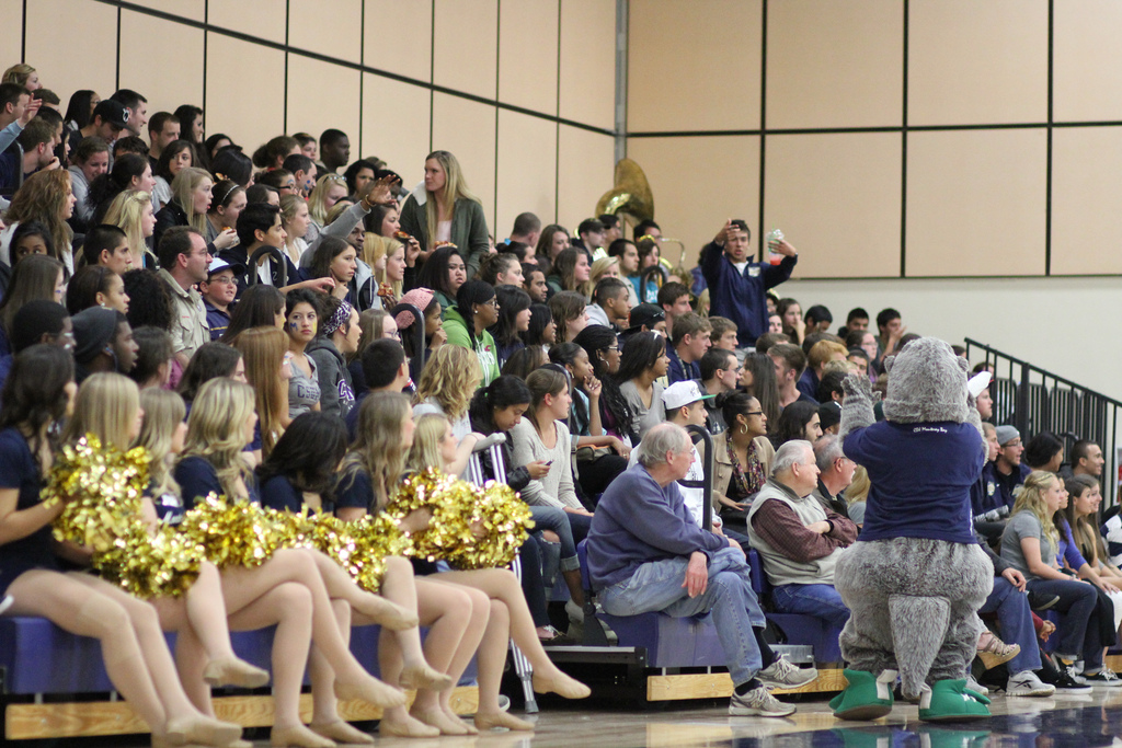 This is a picture of the stands at The Kelp Bed during a home men's basketball game.